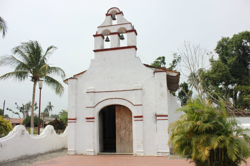 Ermita del Rosario, La Antigua, Veracruz.